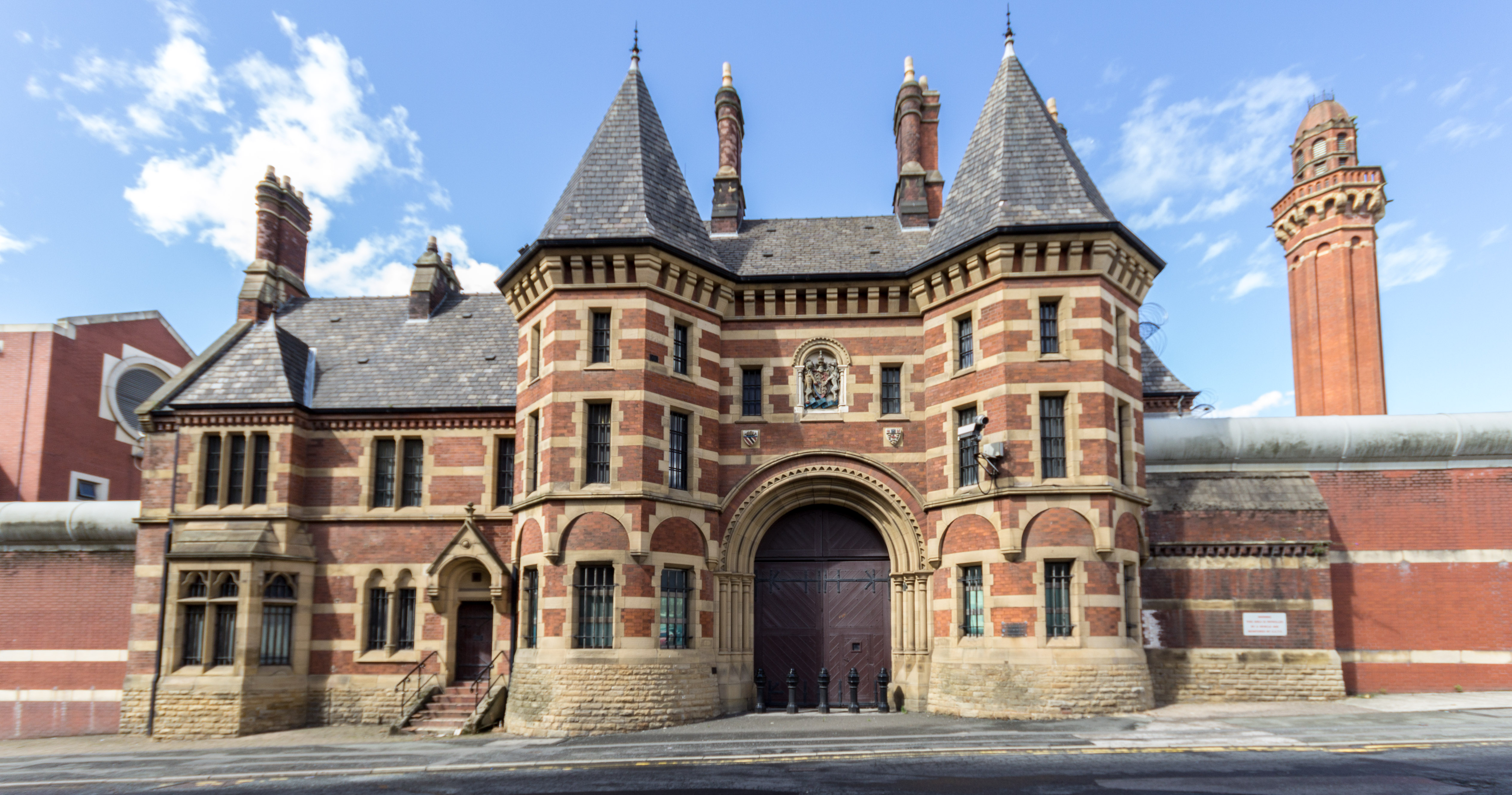 Presumably the original entrance to Strangeways Prison in Manchester.